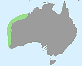 Ocypode convexa distribution map